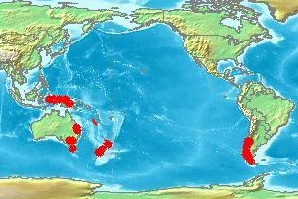 This is an edit of File:Nothofagus demis.JPG centering the view around the relevant longitudes and including New Caledonia as part of the range.